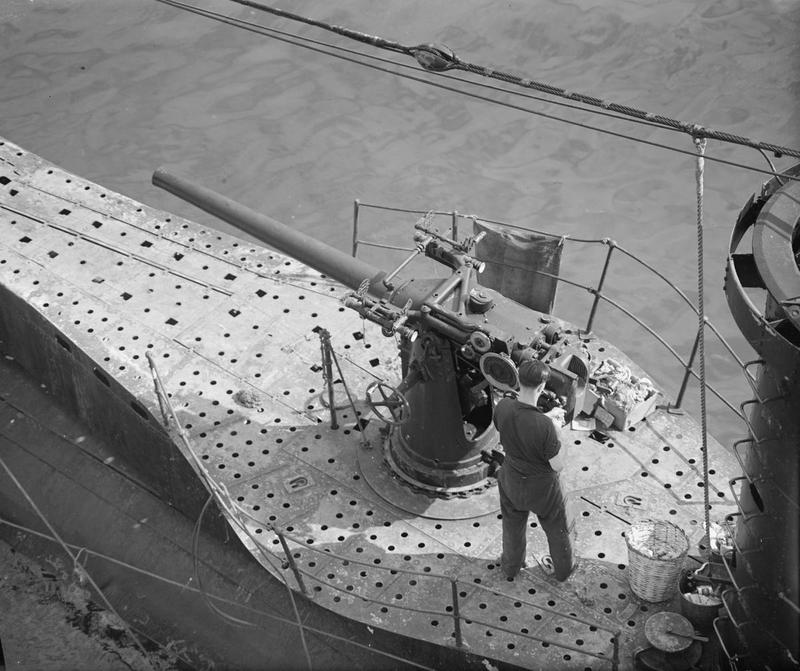 "submarine Life"- Last Minute Duties Before a Mediterranean Patrol. March and April 1943, Malta, Officers and Men of a British Submarine Before Going Out on Patrol in the Mediterranean. Before the patrol - the gun is overhauled, cleaned and painted.